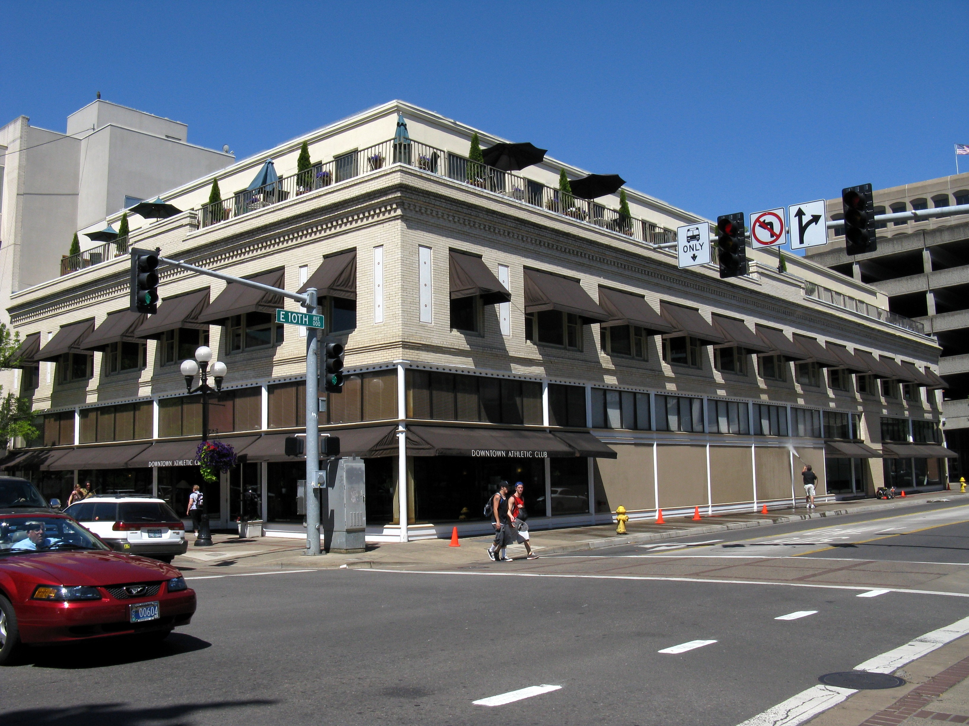 The historic Ax Billy Department Store building (built 1910), located at 973-997 Willamette Street in Eugene, Oregon, United States, is listed on the US National Register of Historic Places (NRHP).NRHP reference number 82003731